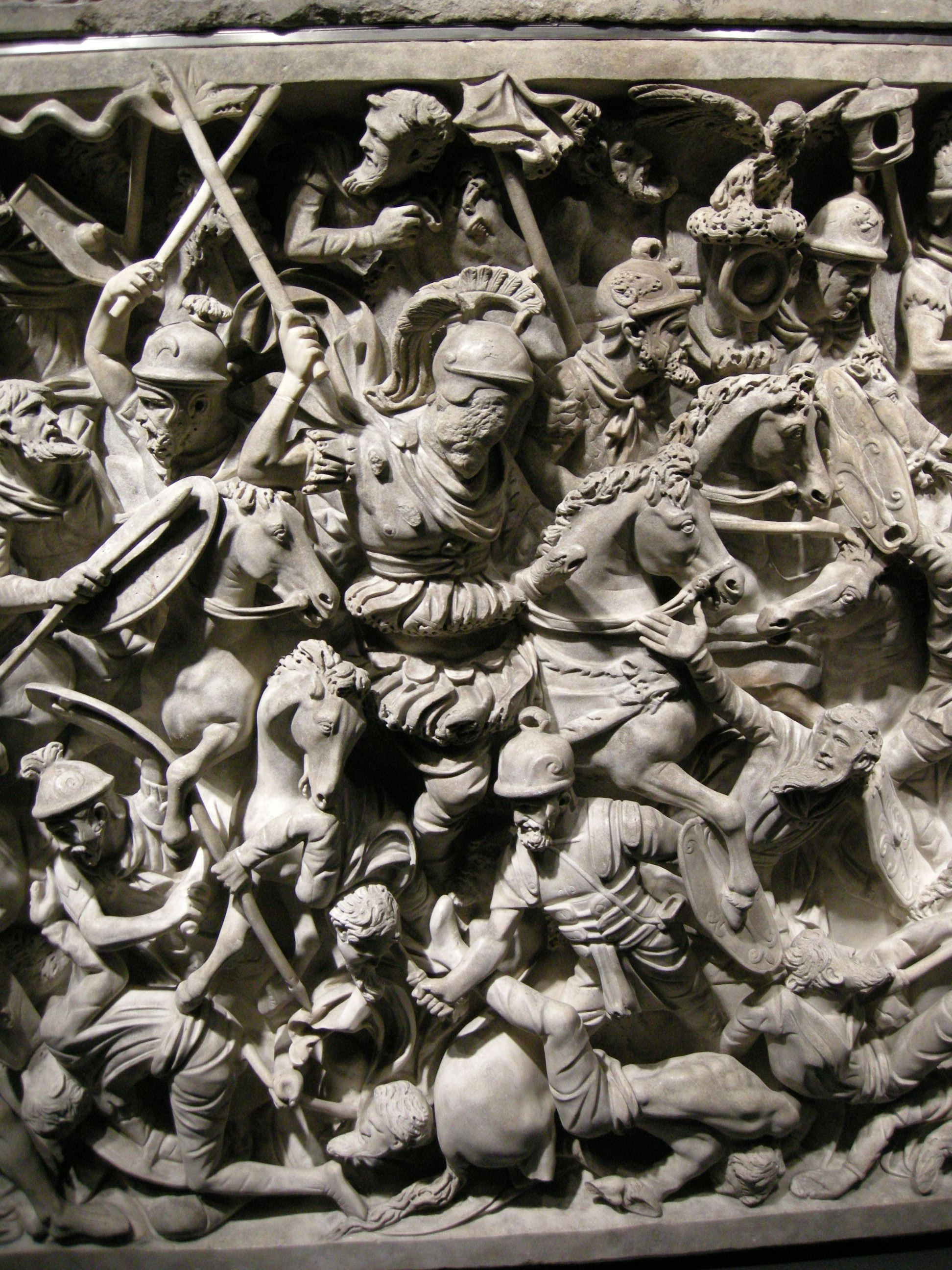 read filename